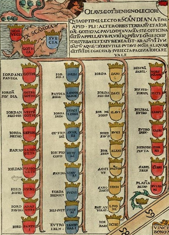 Table of tribes originating from Scandinavia, with reference to authors like Jordanes, Paulus Diakonos, etcetera